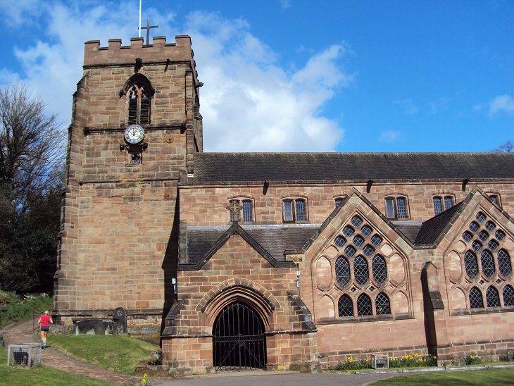 St Michael and All Angels Church in Tettenhall, Wolverhampton. Photograph taken on 4th April 2010.